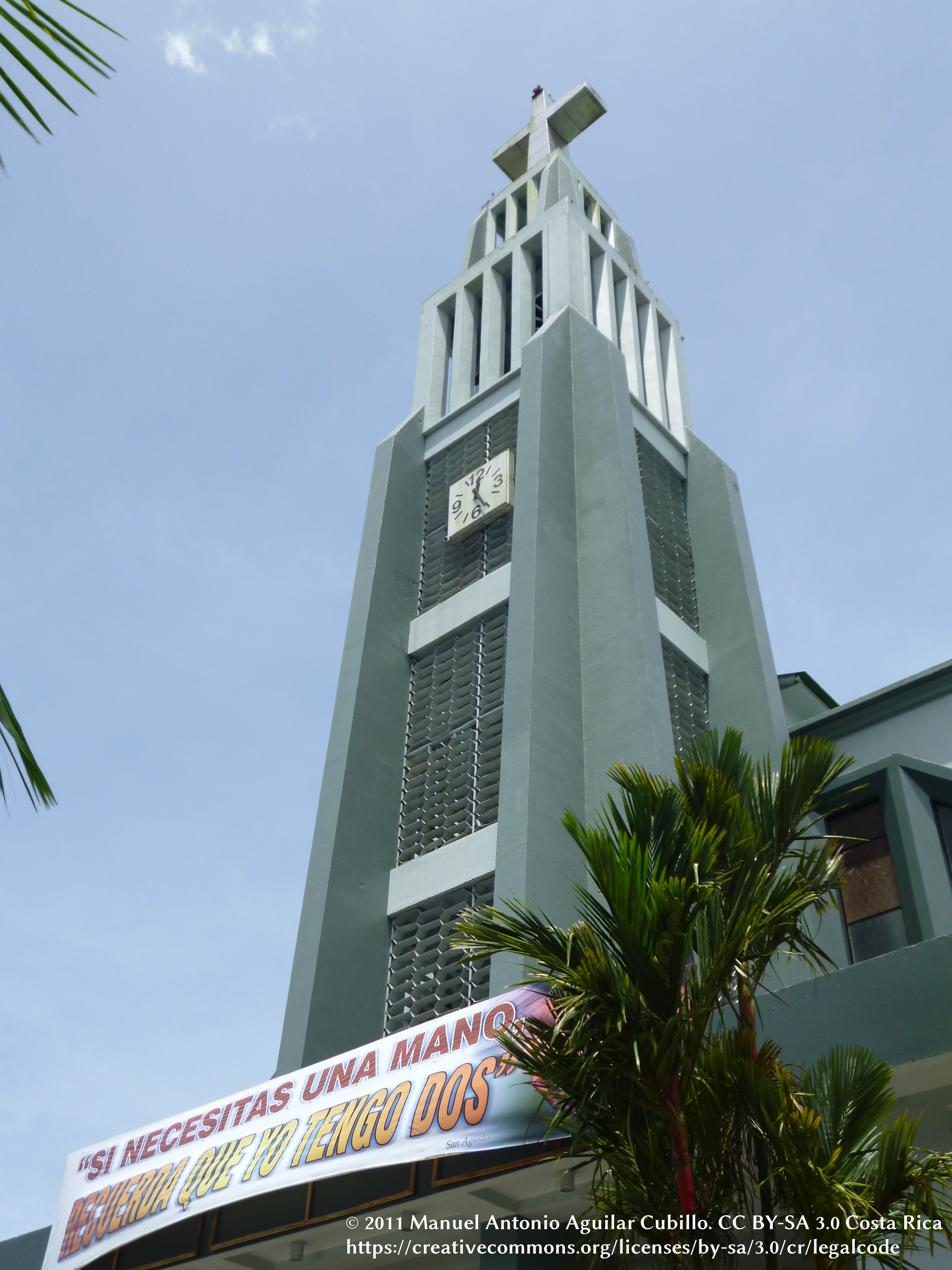 Cathedral of St. Charles Borromeo in Ciudad Quesada, Costa Rica.